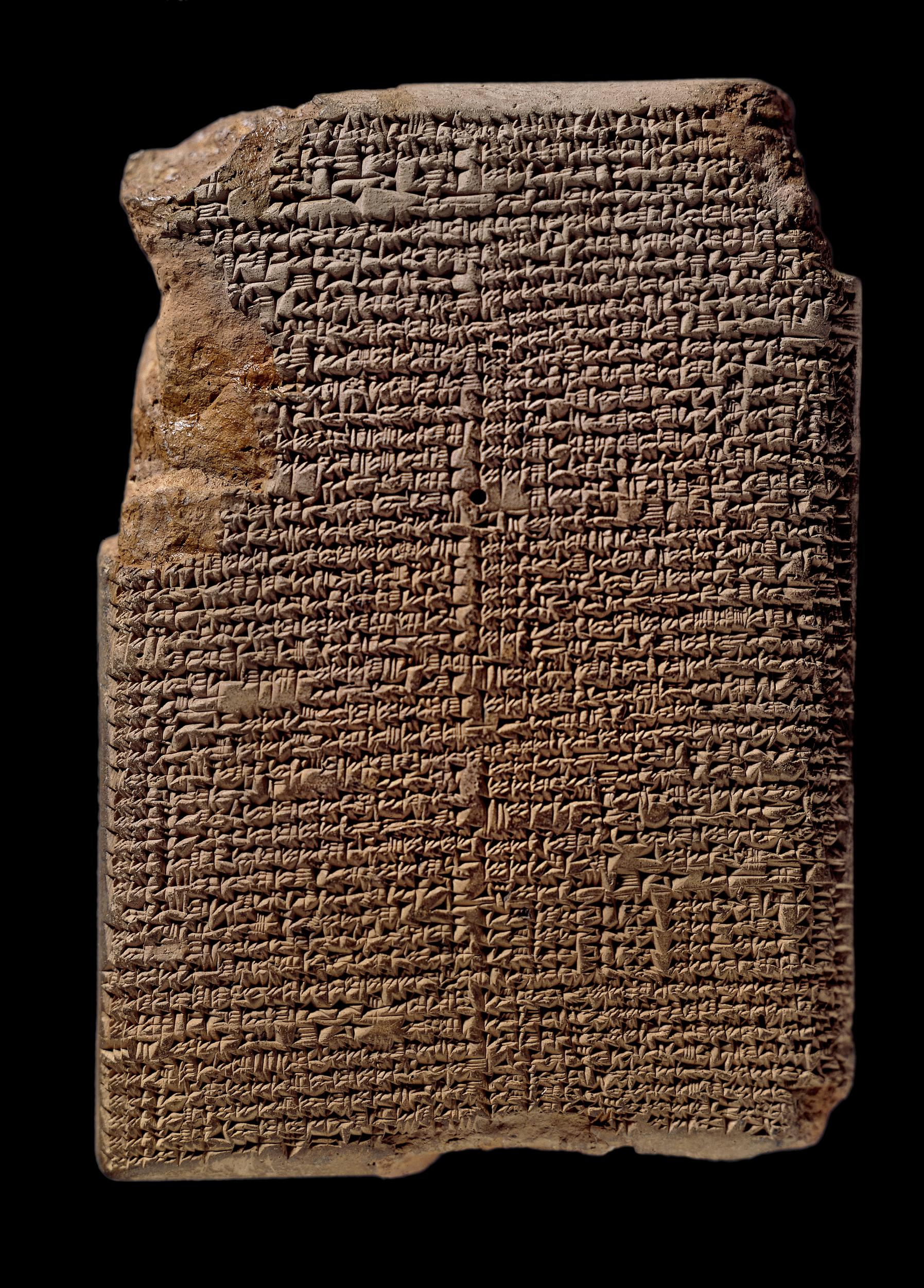 Asset number 152339001 Description Clay tablet with two columns of inscription. Astronomical treatise, tablet 1 of the series Mul-Apin ("the plough star") which includes a list of the three divisions of the heavens, the dates (in the ideal 360-day year) of the rising of principal stars and of those which rise and set together, and the constellations in the path of the moon; nearly complete.